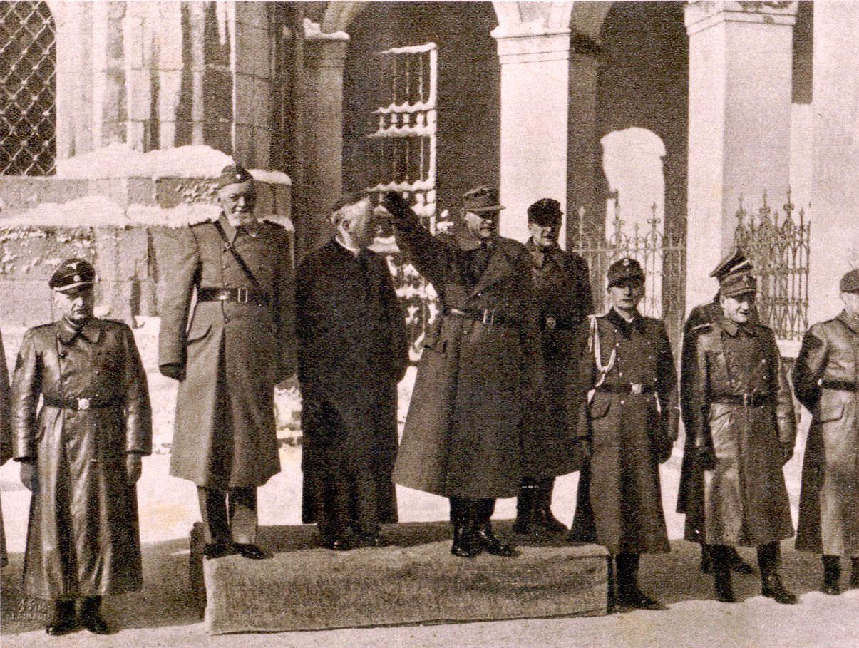 From left: Rupnik, Rožman and Rösener